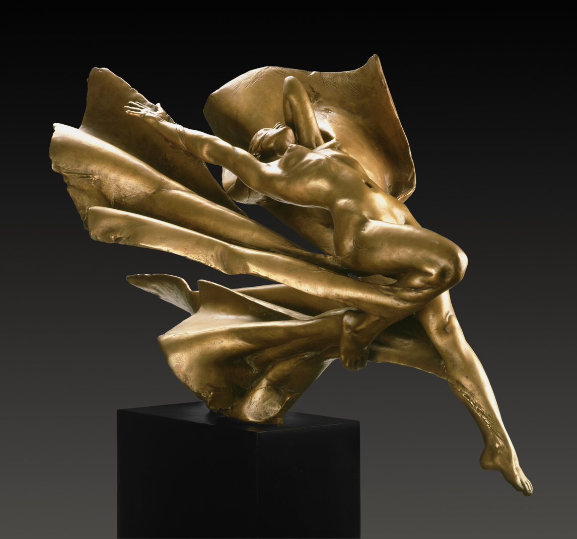 Bronze sculpture created by Jacques Le Nantec in 1985.